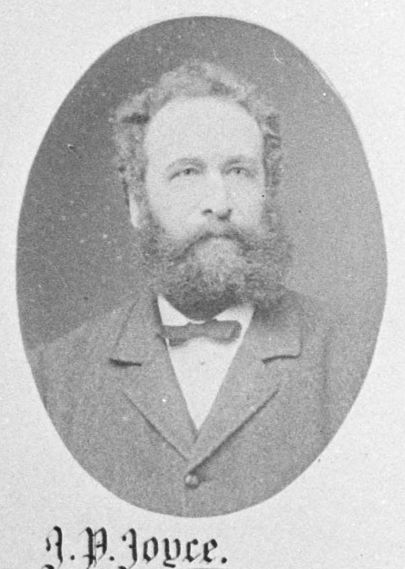 Photographic copy of a montage of photographic portraits depicting members of the 1882 House of Representatives. All portraits taken by William Henshaw Clarke of Wellington. Copy of montage made by S P Andrew Ltd.